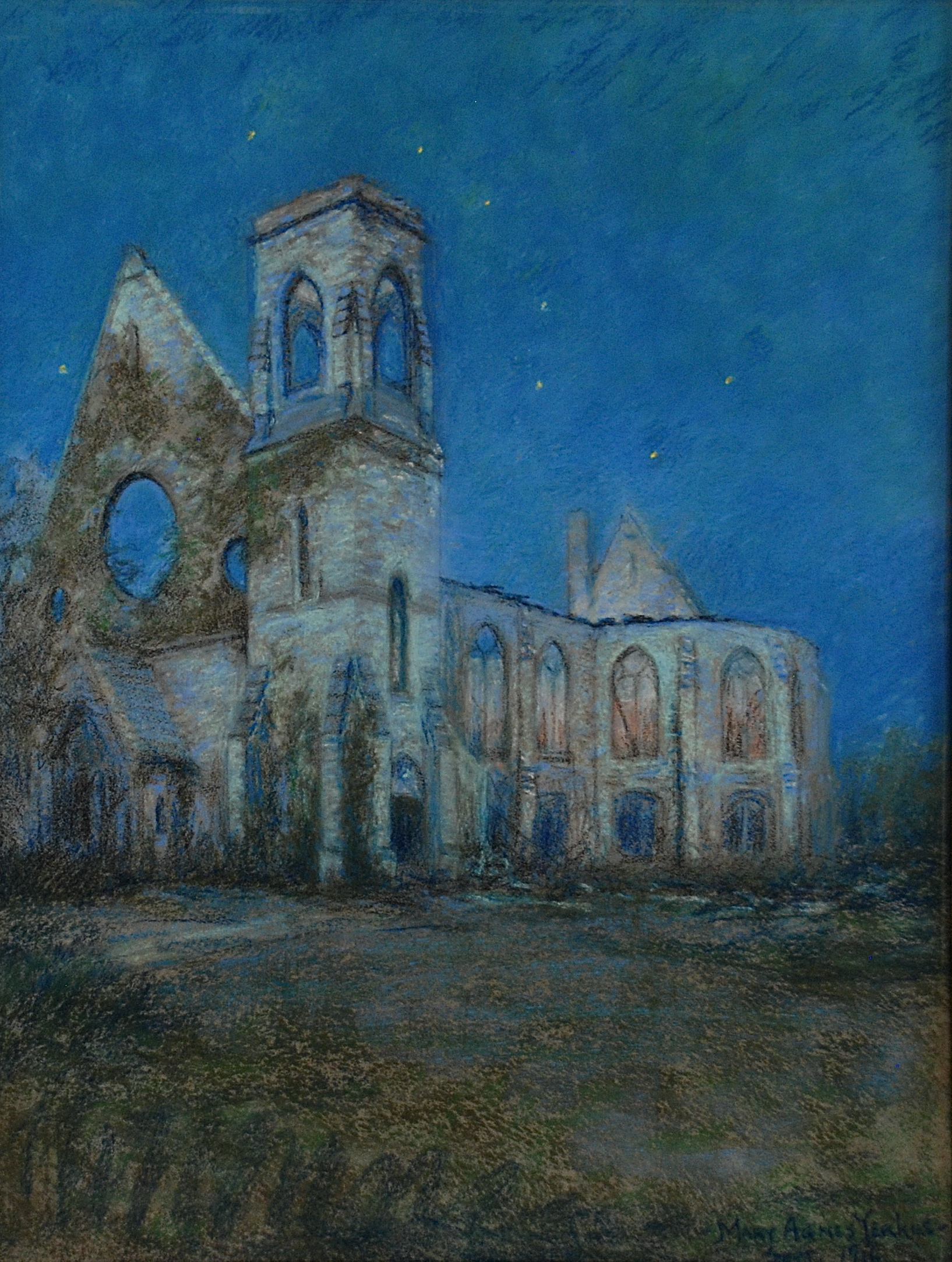 "After the Fire" by Mary Agnes Yerkes. Dated 1916. Pastel on canvas. Oak Park, IL.